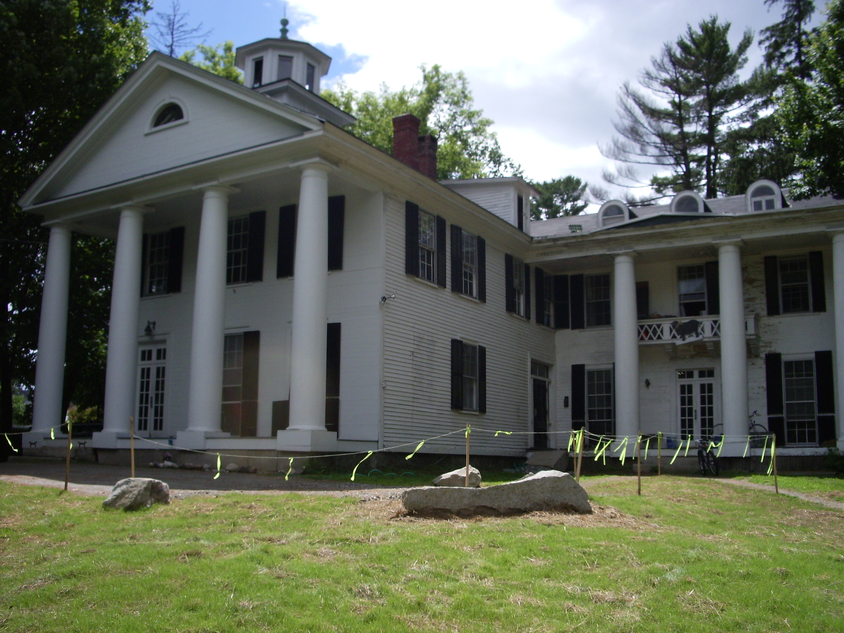 Photograph of Panarchy at the campus of Dartmouth College in Hanover, New Hampshire.